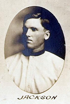 George Jackson, former Major League Baseball outfielder.